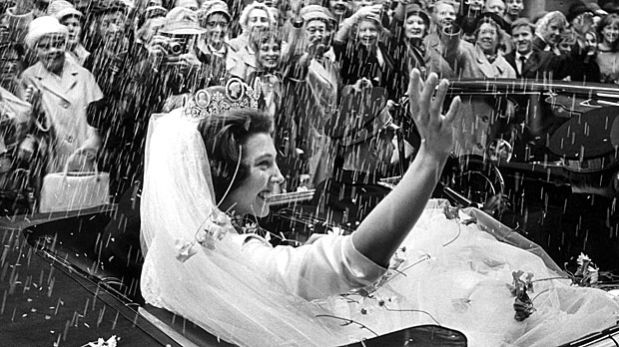 Princess Desirée of Sweden after the wedding cermony. The husbands name is Niclas Silfverschiöld.